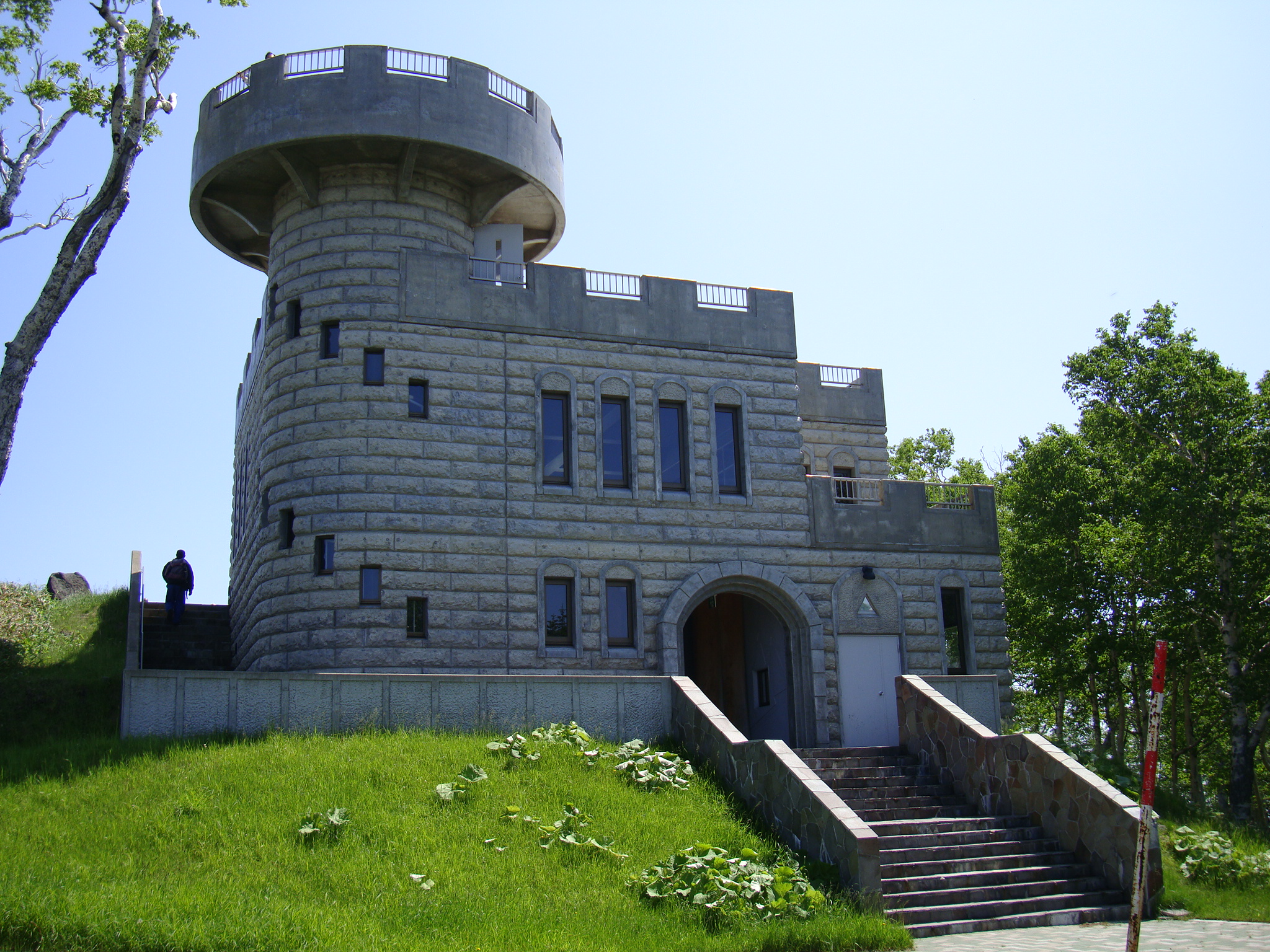 Tsubetsu Mountain pass Observation deck